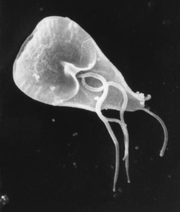 This scanning electron micrograph (SEM) revealed some of the external ultrastructural details displayed by a flagellated Giardia lamblia protozoan parasite. G. lamblia is the organism responsible for causing the diarrheal disease "giardiasis". Once an animal or person has been infected with this protozoan, the parasite lives in the intestine, and is passed in the stool. Because the parasite is protected by an outer shell, it can survive outside the body, and in the environment for long periods of time. Cysts are resistant forms and are responsible for transmission of giardiasis. Both cysts and trophozoites can be found in the feces (diagnostic stages). The cysts are hardy and can survive several months in cold water. Infection occurs by the ingestion of cysts in contaminated water, food, or by the fecal-oral route (hands or fomites). In the small intestine, excystation releases trophozoites (each cyst produces two trophozoites). Trophozoites multiply by longitudinal binary fission, remaining in the lumen of the proximal small bowel where they can be free or attached to the mucosa by a ventral sucking disk. Encystation occurs as the parasites transit toward the colon. The cyst is the stage found most commonly in non-diarrheal feces. Because the cysts are infectious when passed in the stool or shortly afterward, person-to-person transmission is possible. While animals are infected with Giardia, their importance as a reservoir is unclear.